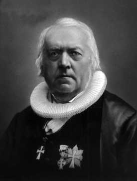 Bishop Ditlev Gothard Monrad (1811-1887)